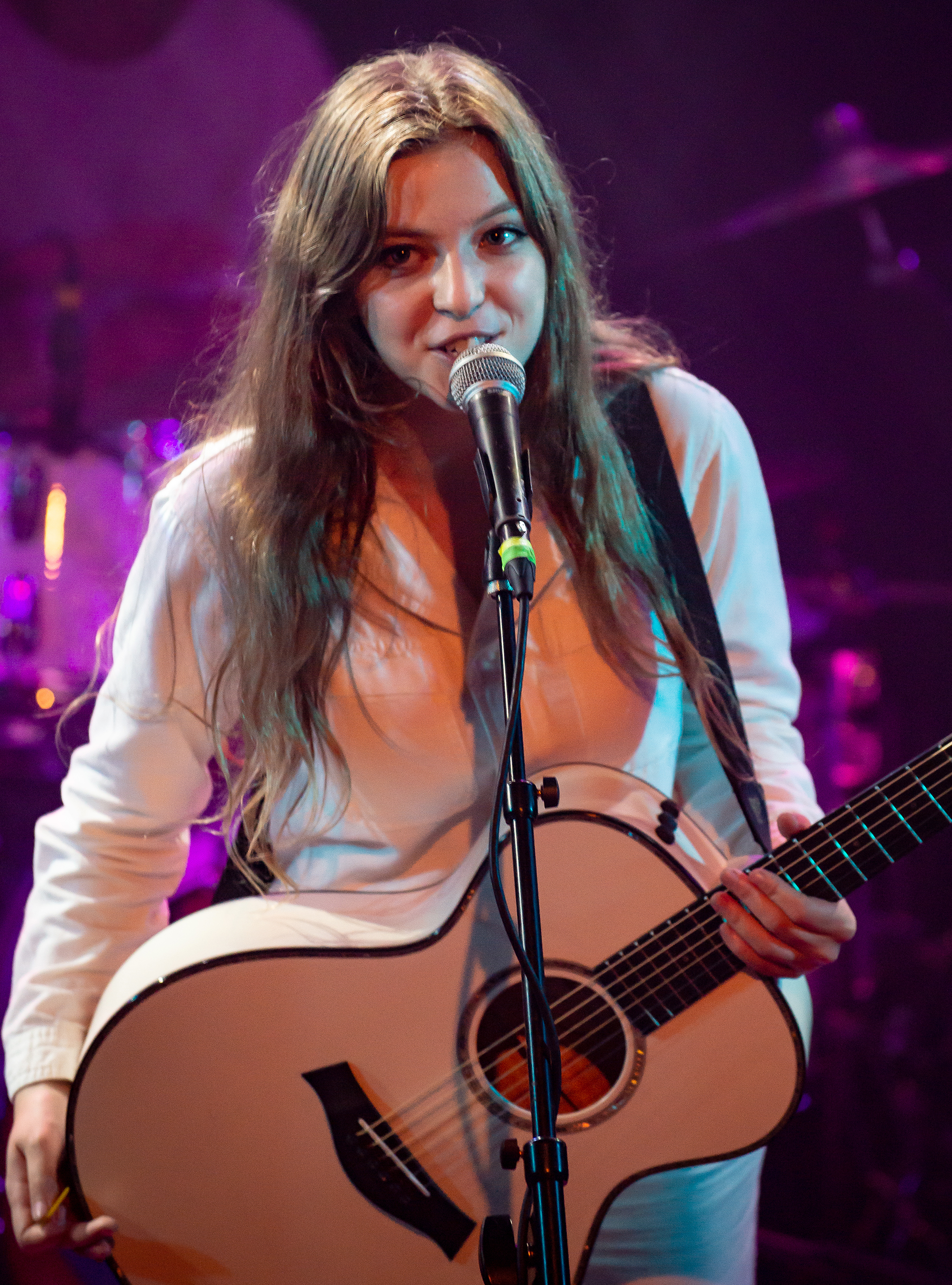 Jade Bird performing live at The Troubadour in Los Angeles, California, on Friday, September 7, 2018. Shot for Pass The Aux.